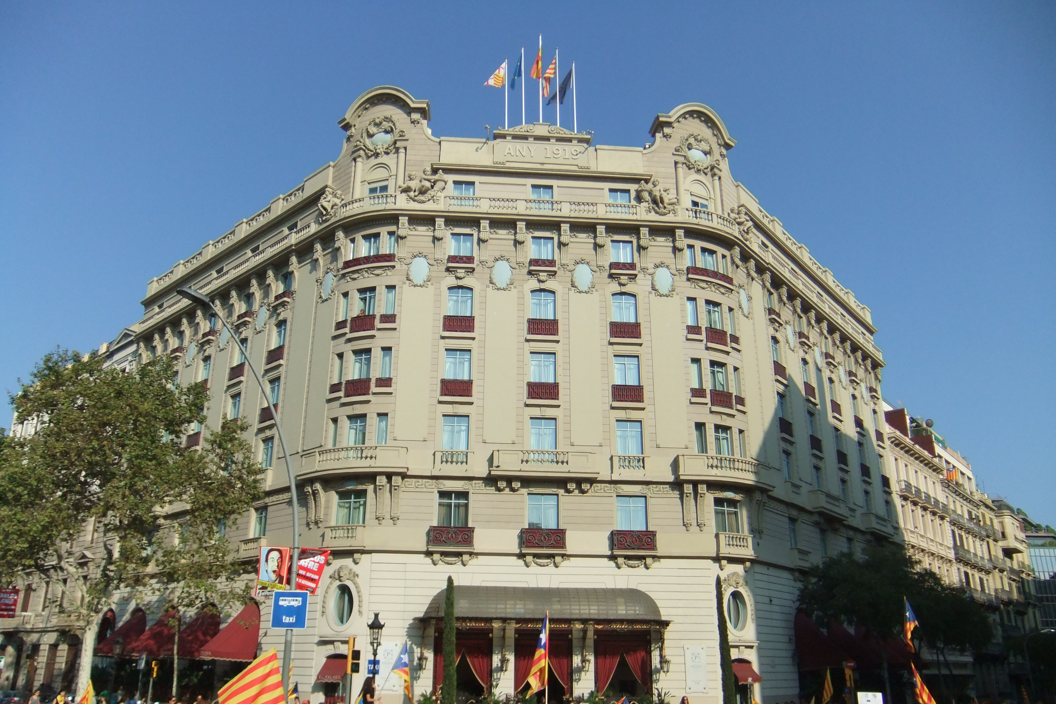 Palace Hotel, Barcelona. Eduard Ferrés Puig, arquitect.